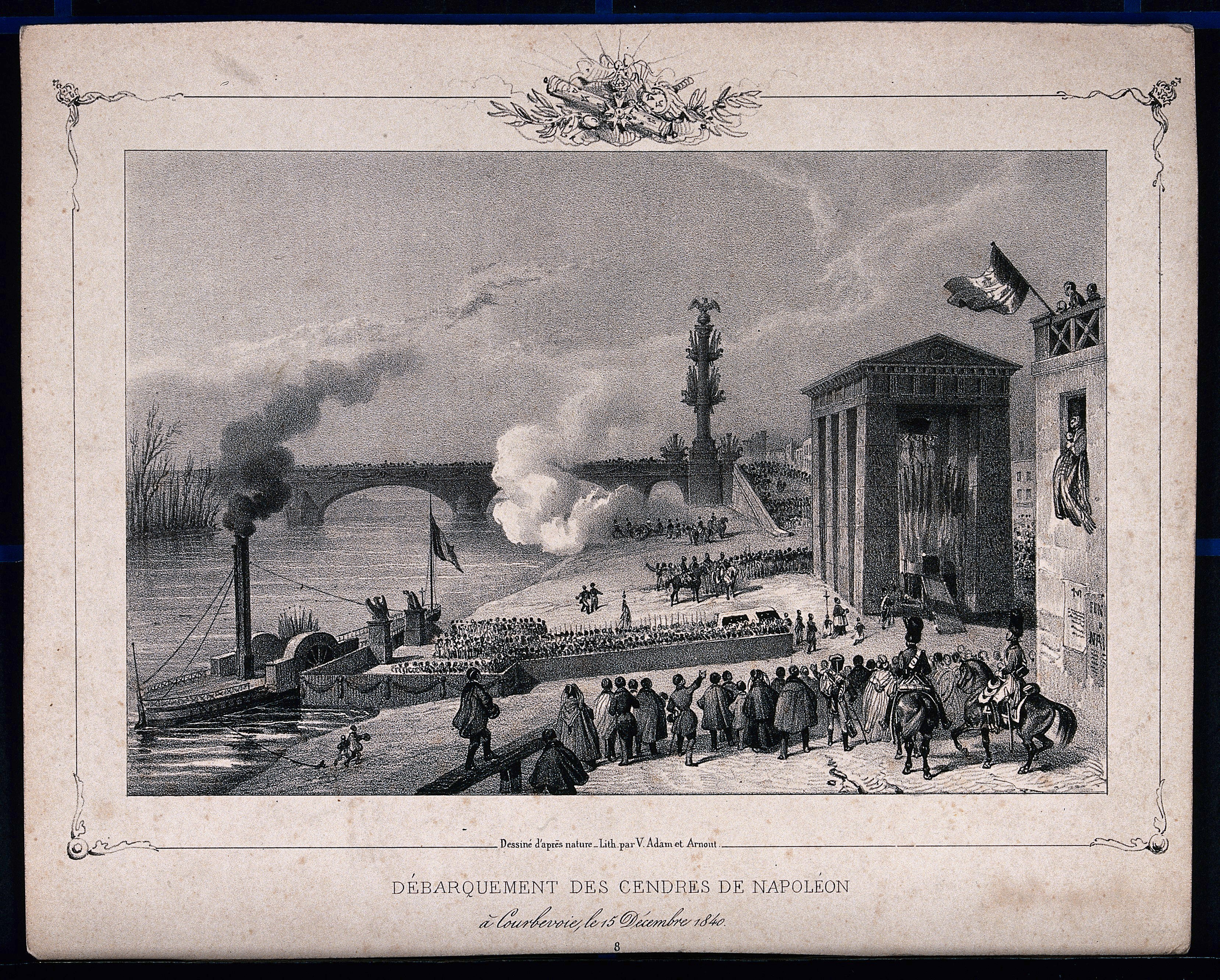 The arrival of the ship (La Dorade 3) containing the ashes of Napoleon Bonaparte in Courbevoie in 1840. Lithograph by J. Arnout after V. J. Adam.